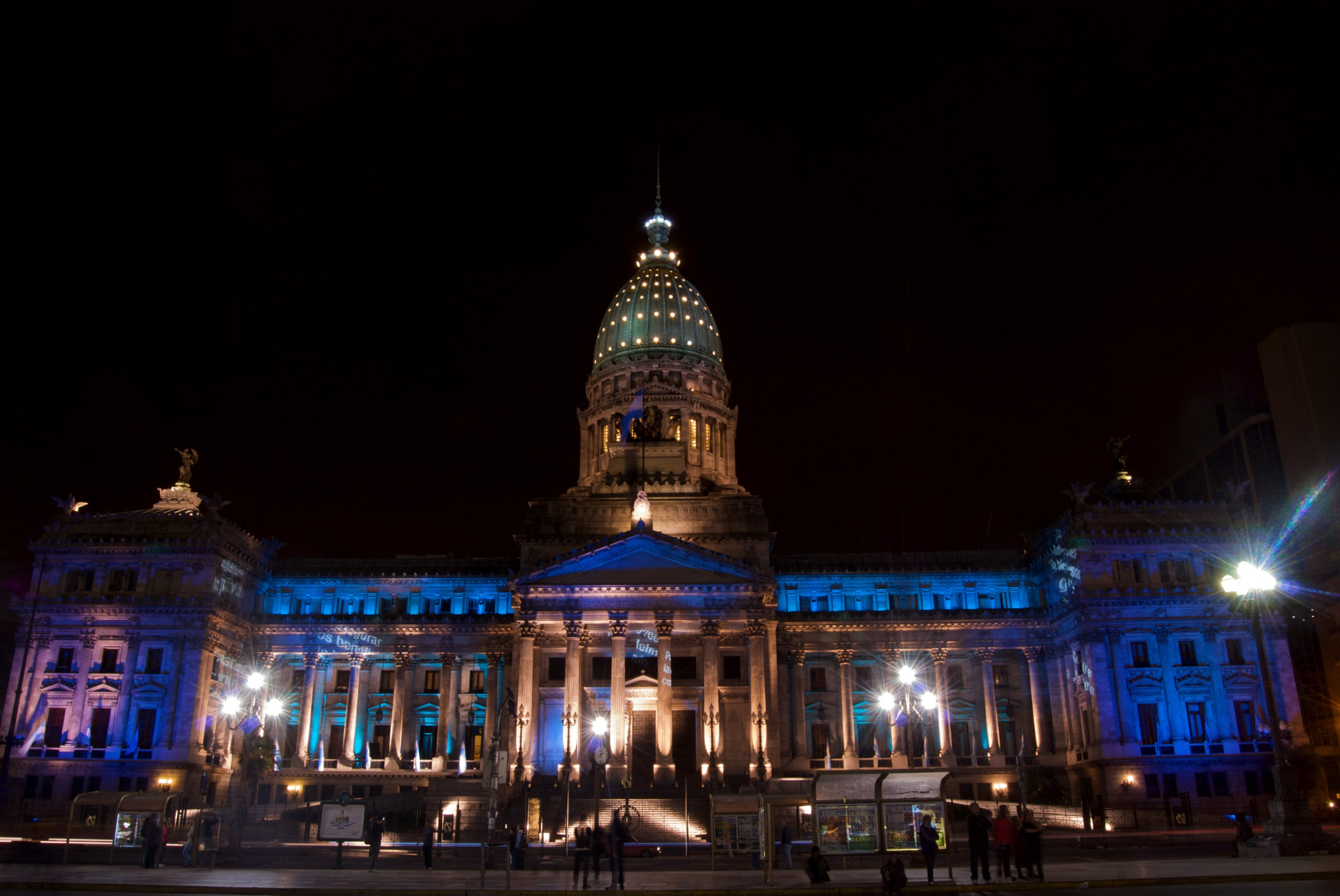 Congreso. Celebrating the Argentine Bicentennial.